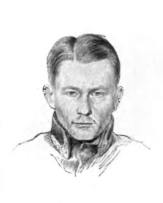 Polish poet, publicist, writer and editor of "Gazeta Literacka".